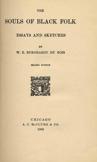 The Souls of Black Folk title page. By W.E.B. DuBois, first published 1903. Image:The Souls of Black Folk title page verso.jpg Encyclopedia article on Wikipedia Complete text on Wikisource